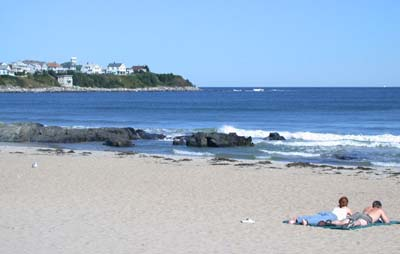 Hampton Beach, beach on the Gulf of Maine (taken Sept. 20, 2004) © 2004 Matthew Trump